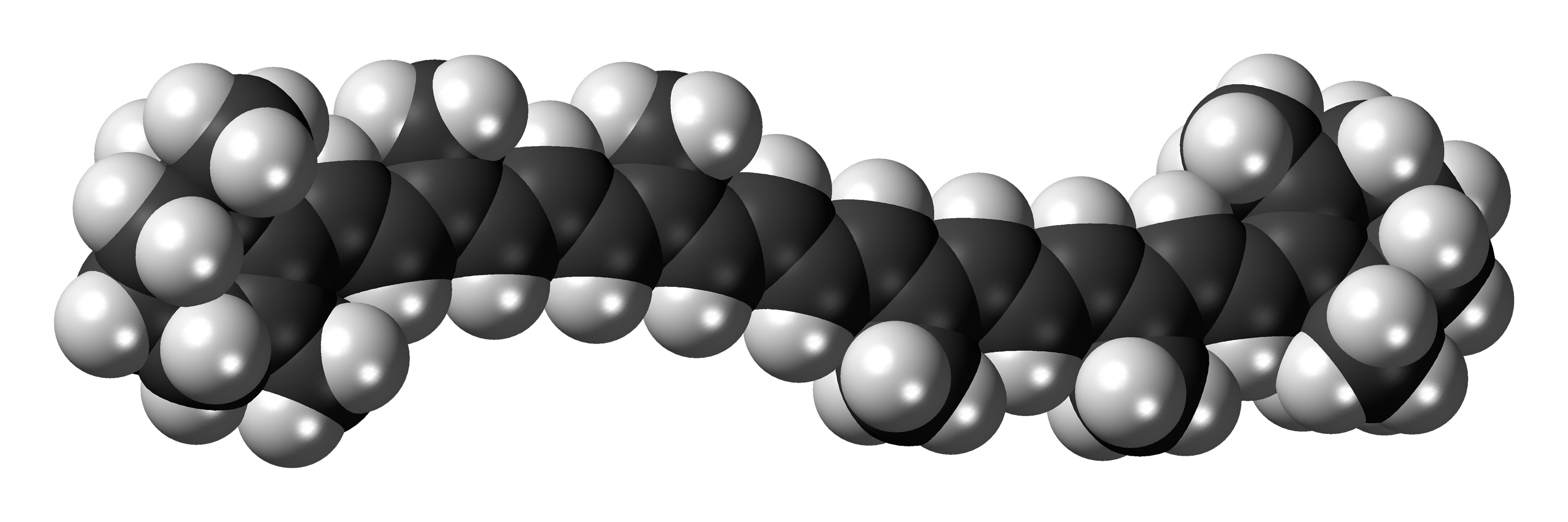 Space-filling model of the β-carotene molecule, one of several plant dyes called carotenes, of which β-carotene is the most common. Colour code: Carbon, C: black Hydrogen, H: white